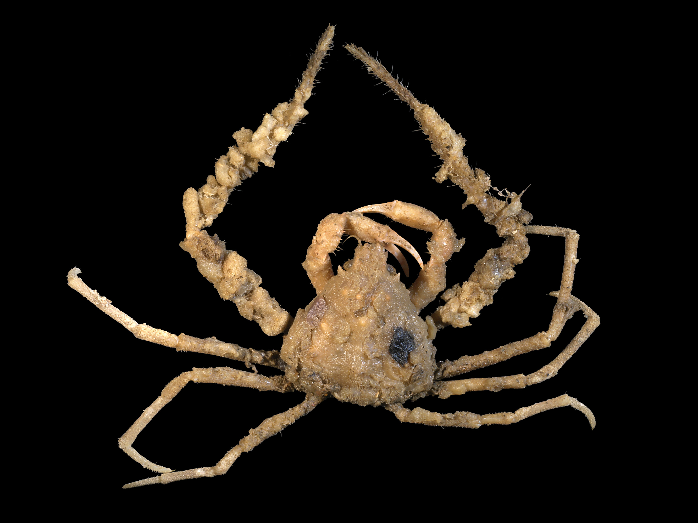 Scorpion spider crab from the Southern North Sea.Studio image.